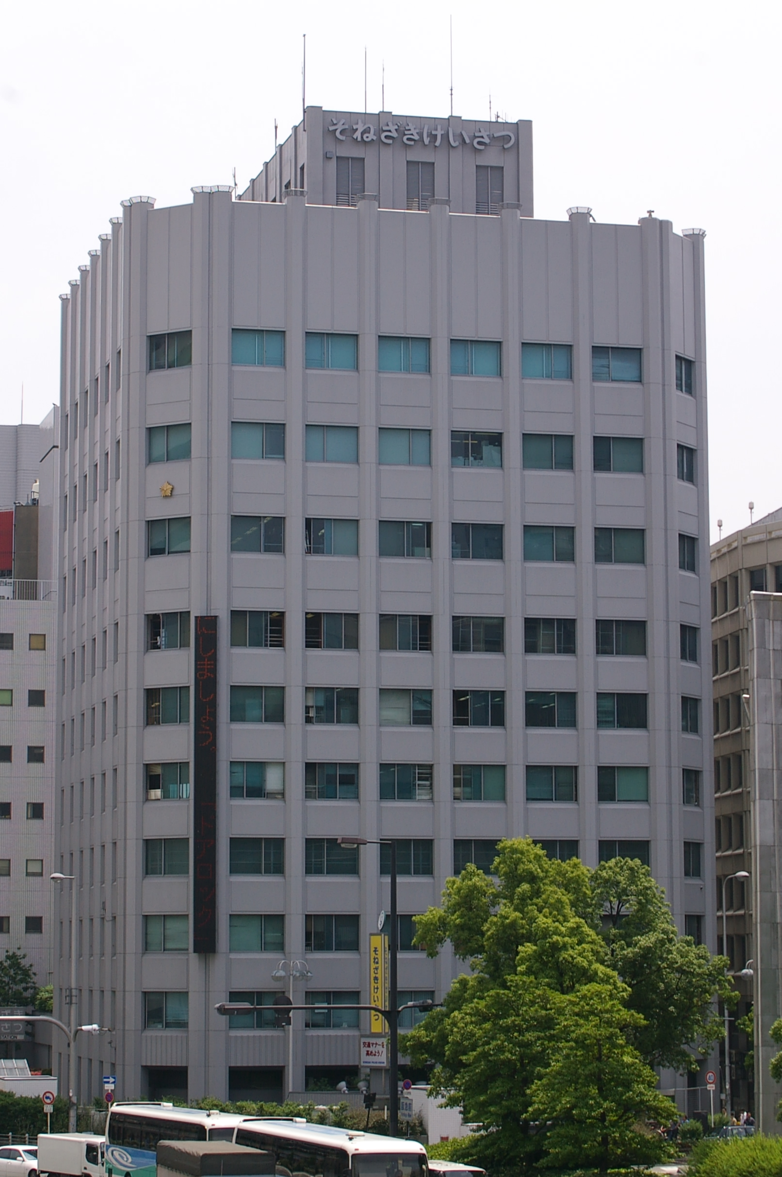 Photograph of Sonezaki Police Station, including Traffic Control Center and Community Plaza of Osaka Prefectural Police, in Kita-ku, Osaka, Osaka Prefecture, Japan.